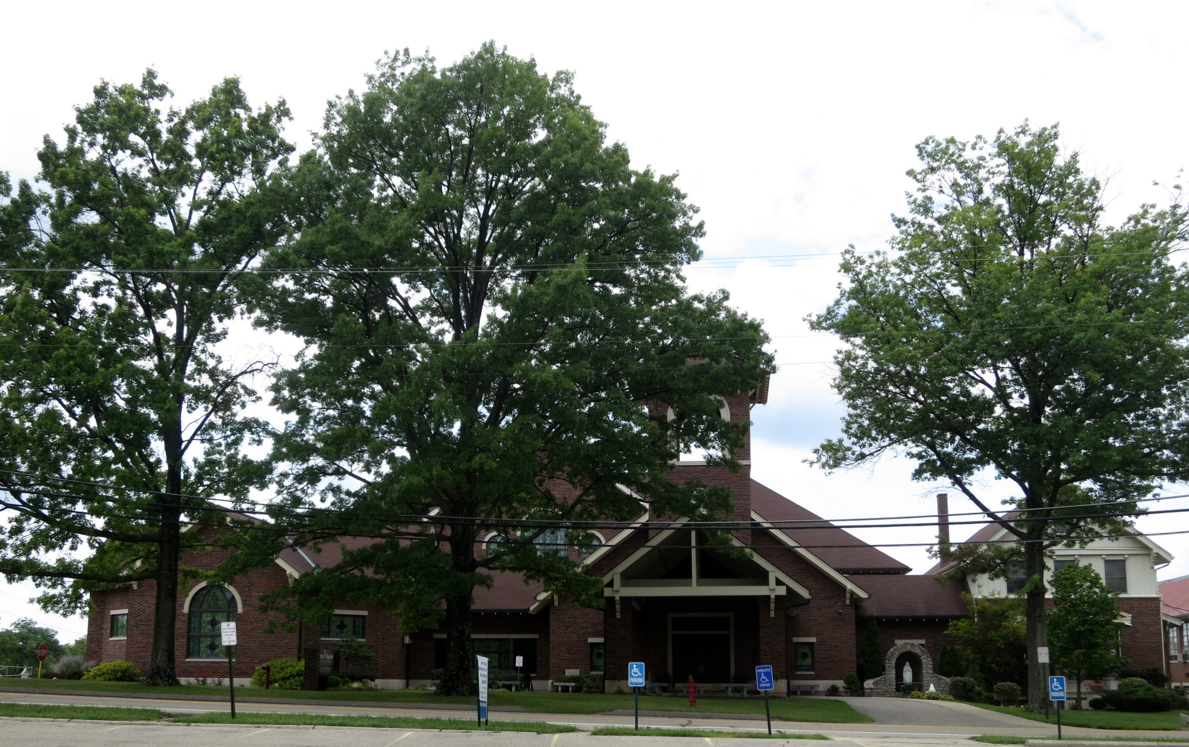 Saint John the Baptist Catholic Church (Dry Ridge, Ohio) - exterior